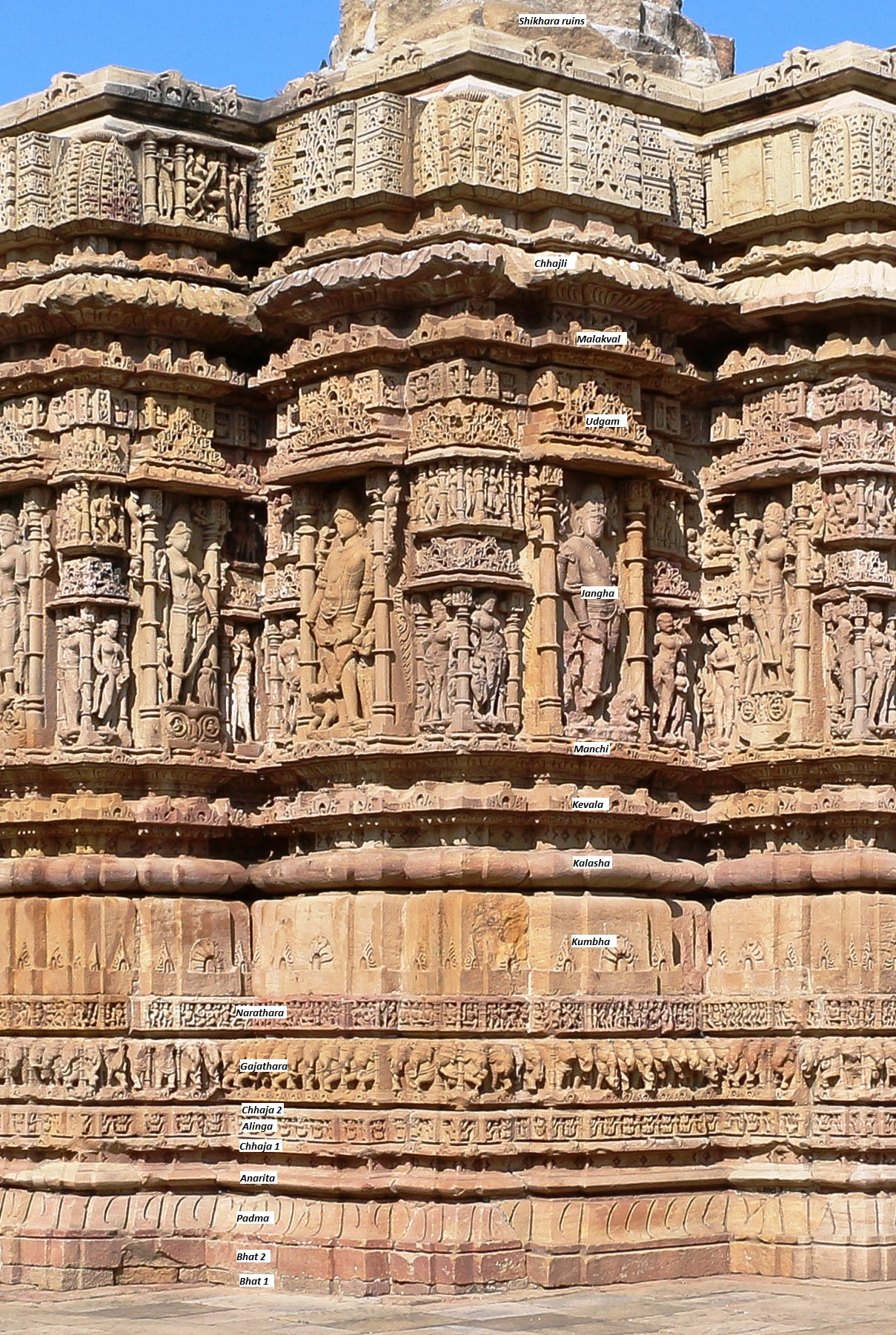 Sun Temple, Modhera - Gudhamandapa with annotation of exterior mouldings